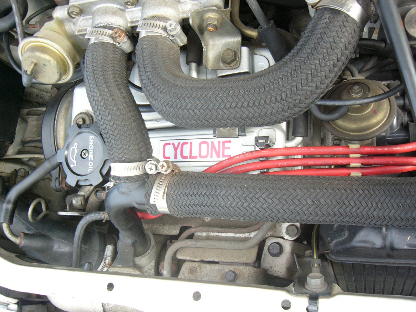 Affixed to the 3G81 turbo engine Mitsubishi Minica Econo(H14V) of "Cyclone" logo sticker. Taken in 2013 MMF Okazaki.